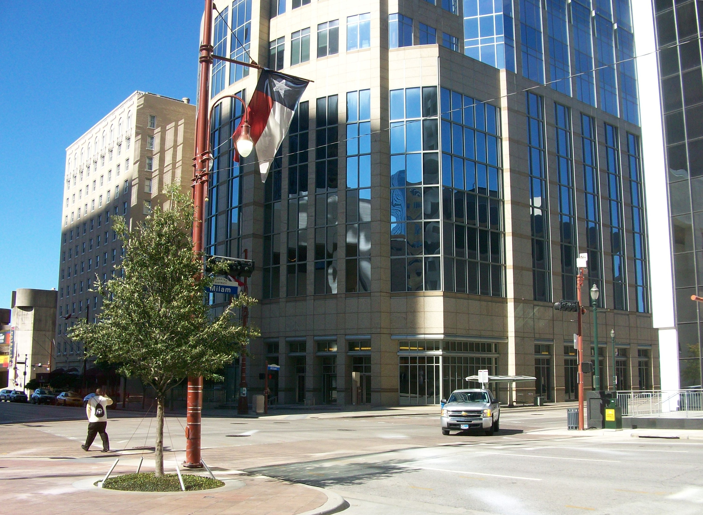 Main entryway of the Calpine building on the corner of Milam St. and Texas St. in Houston, TX, USA